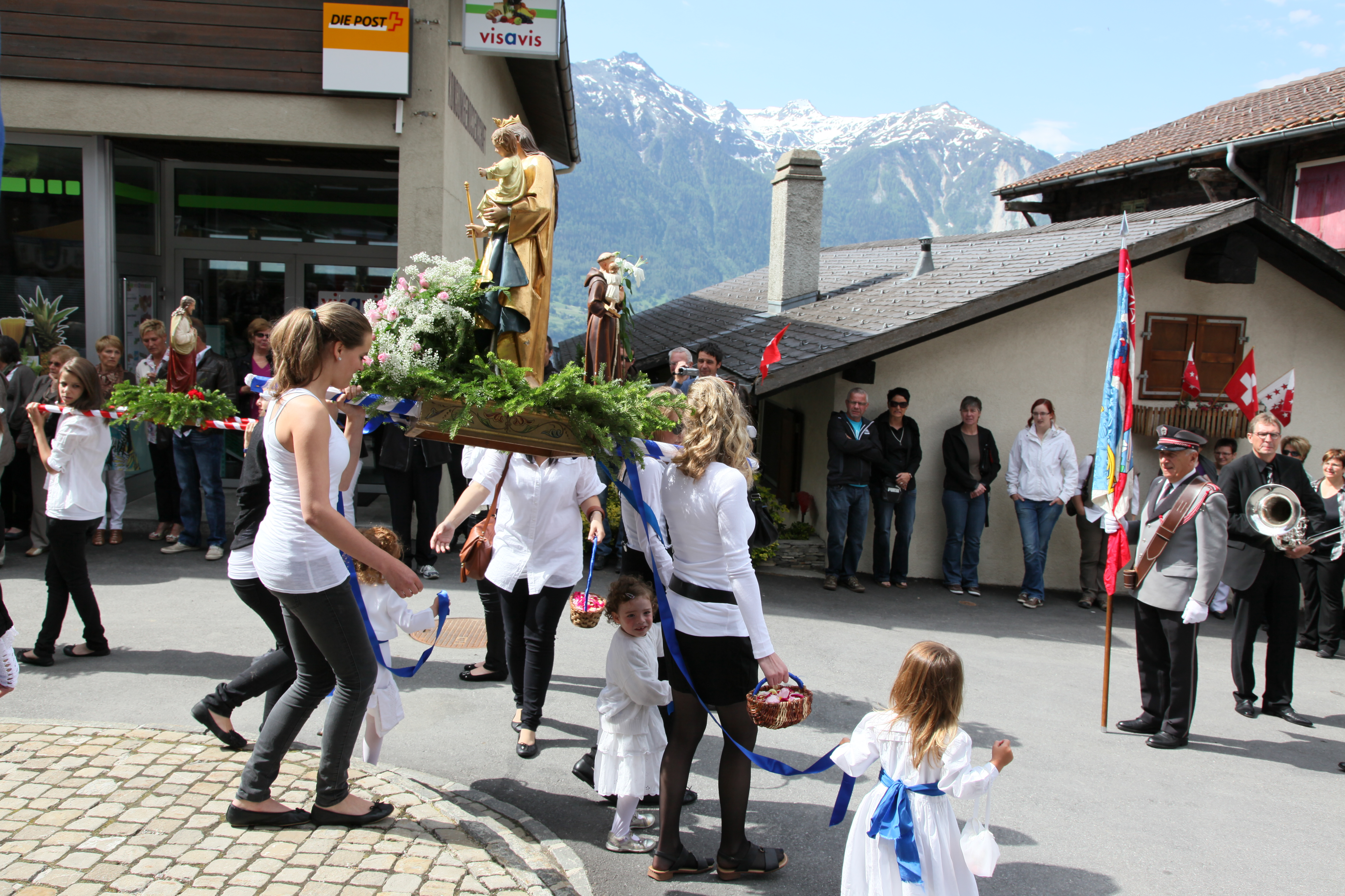 Feast of Corpus Christi at Erschmatt, municipality Leuk in the canton of Valais in Switzerland.